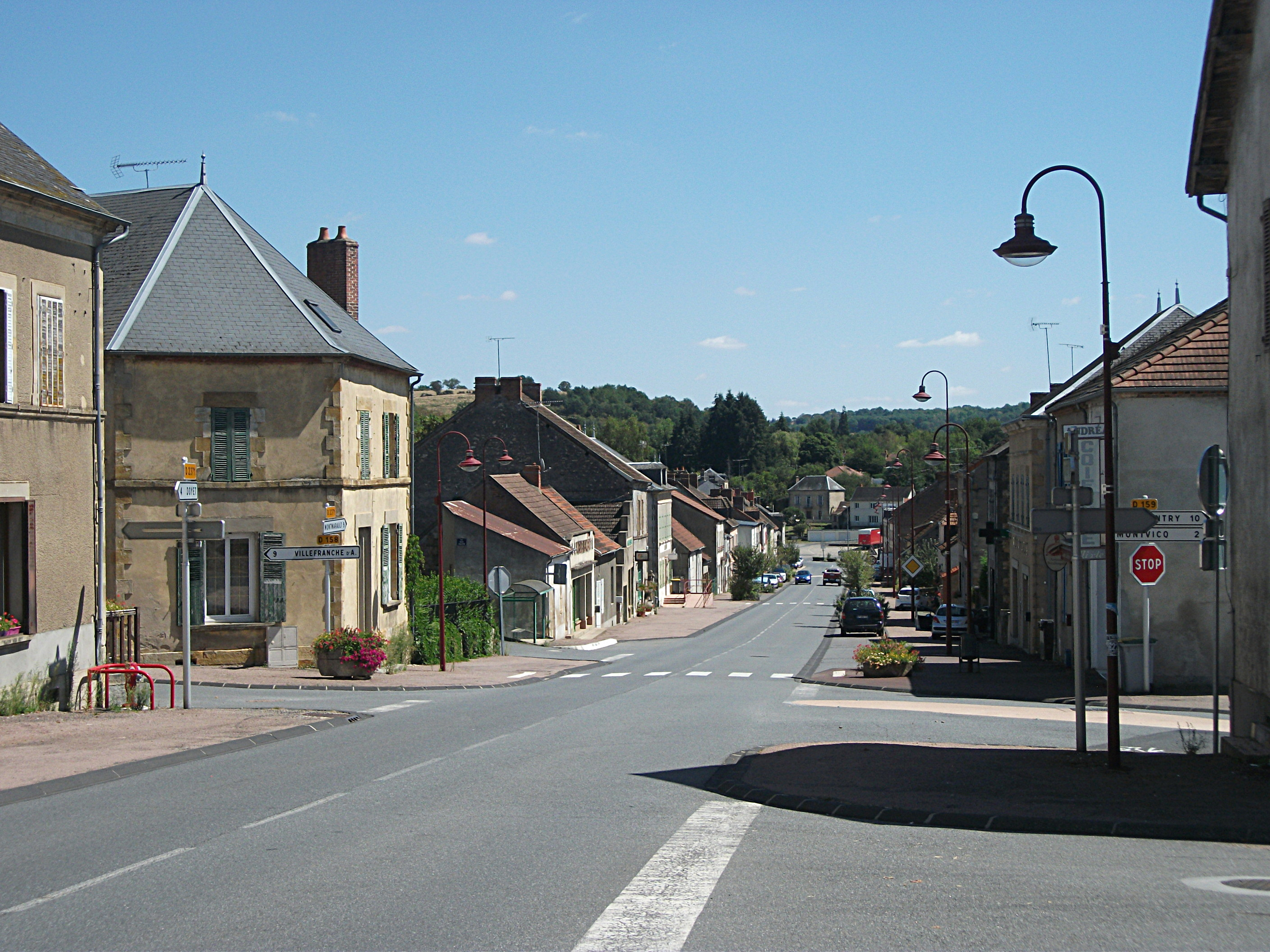 Road towards Montmarault, Allier: D 2371 (former N 371 and N 145) in Bézenet, Allier, Auvergne-Rhône-Alpes, France. [16736]